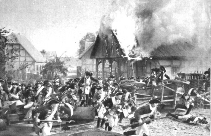 Publicity still for a film